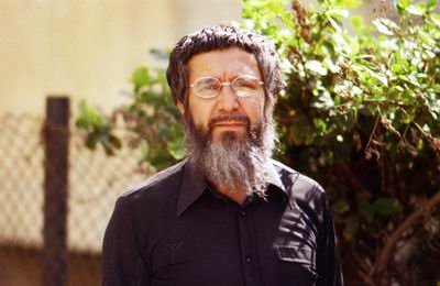 Photograph